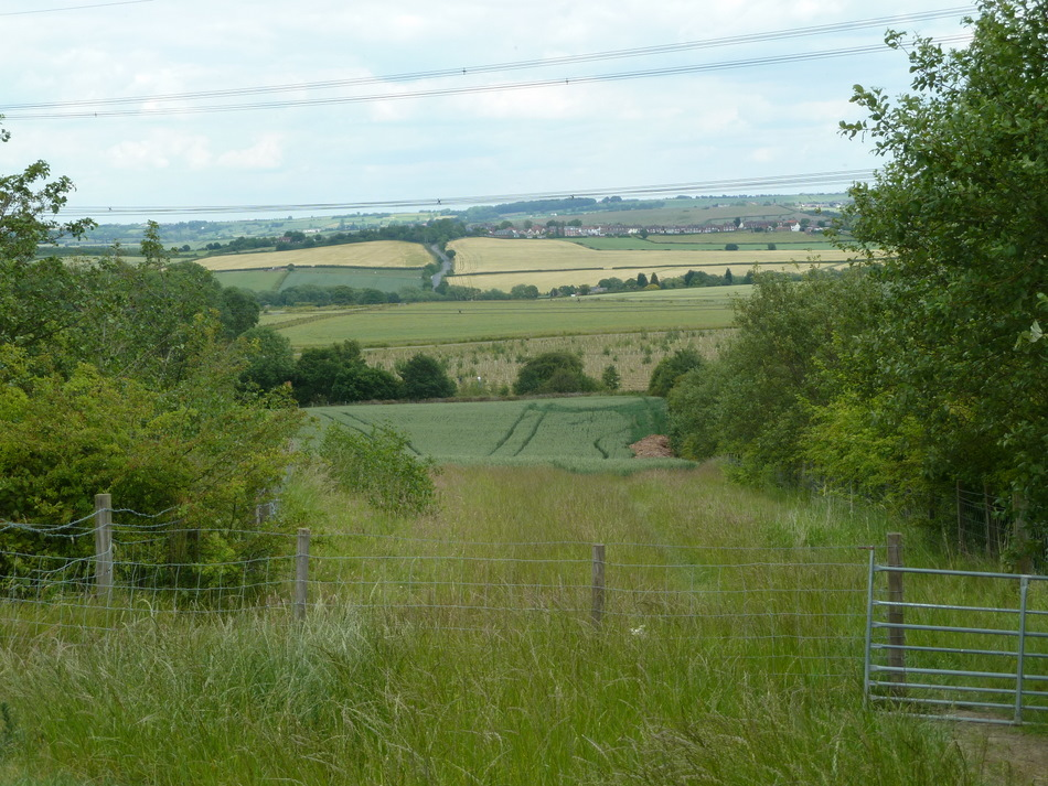 Path towards disused railway line. The site of the opencast coal mine that destroyed the site of the Adelphi Canal at Duckmanton, Debyshire, England.